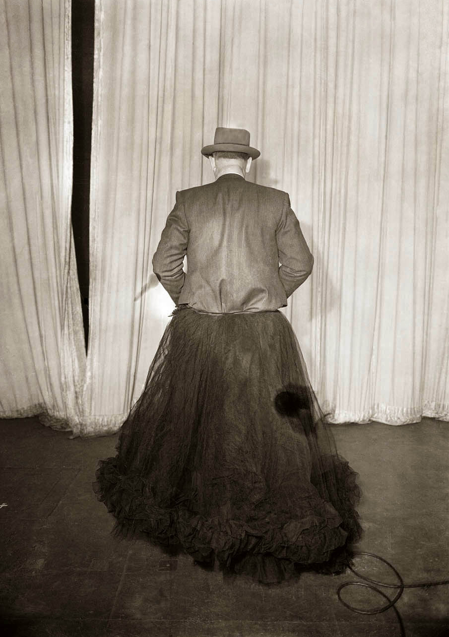 Title: Back view of man (presumably a detective) in a tulle skirt behind a stage curtain. Found in an envelope marked 'Tivoli dressing room fire, 1945'. Format: [Picture] Glass plate negative Record Number: 31915 in the Sydney Police & Justice Museum Caption: The Tivoli Theatre in Castlereagh Street was for decades Sydney's most popular variety theatre, famous for, among other things, its barley-clad showgirls. The circumstances behind this photograph may be thus: police are called in to make a report in the aftermath of a fire. They find themselves granted access to one of the most titillating locales in Sydney - the 'Tiv' dressing room. In the ensuing mood of ribald jocularity a policeman is photographed clowning about.